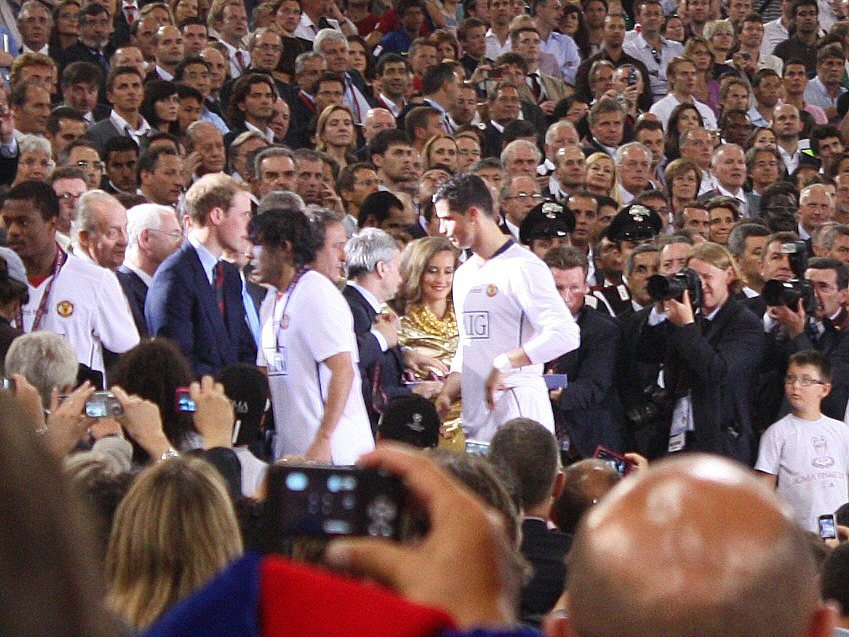 Manchester United FC winger Cristiano Ronaldo receives his runners-up medal from UEFA President Michel Platini after the 2009 UEFA Champions League Final against FC Barcelona